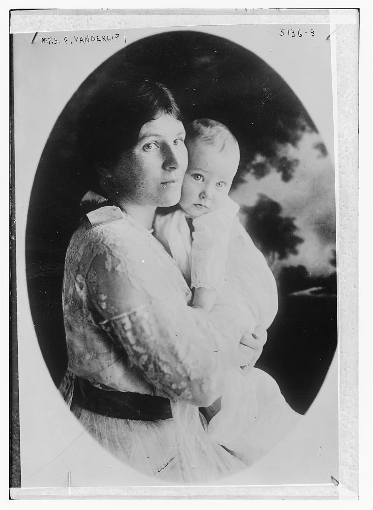 Mabel Narcissa Cox circa 1920